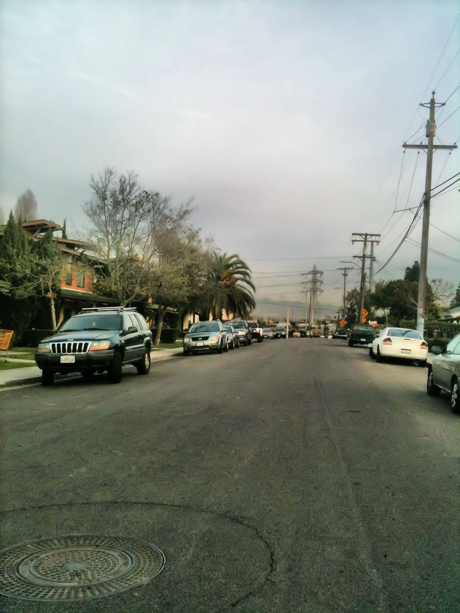 Ada St in Chula Vista, CA